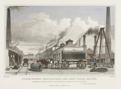 Photograph of an engraving by Watkins of Rothwell Hick & Co. Steam engine manufactory and Iron-Works, Bolton.